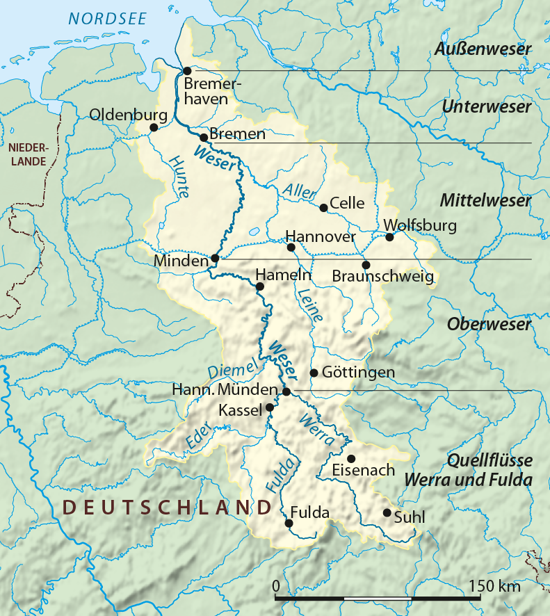 Drainage basin of Weser River